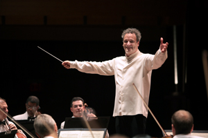 Image of Louis Langrée conducting